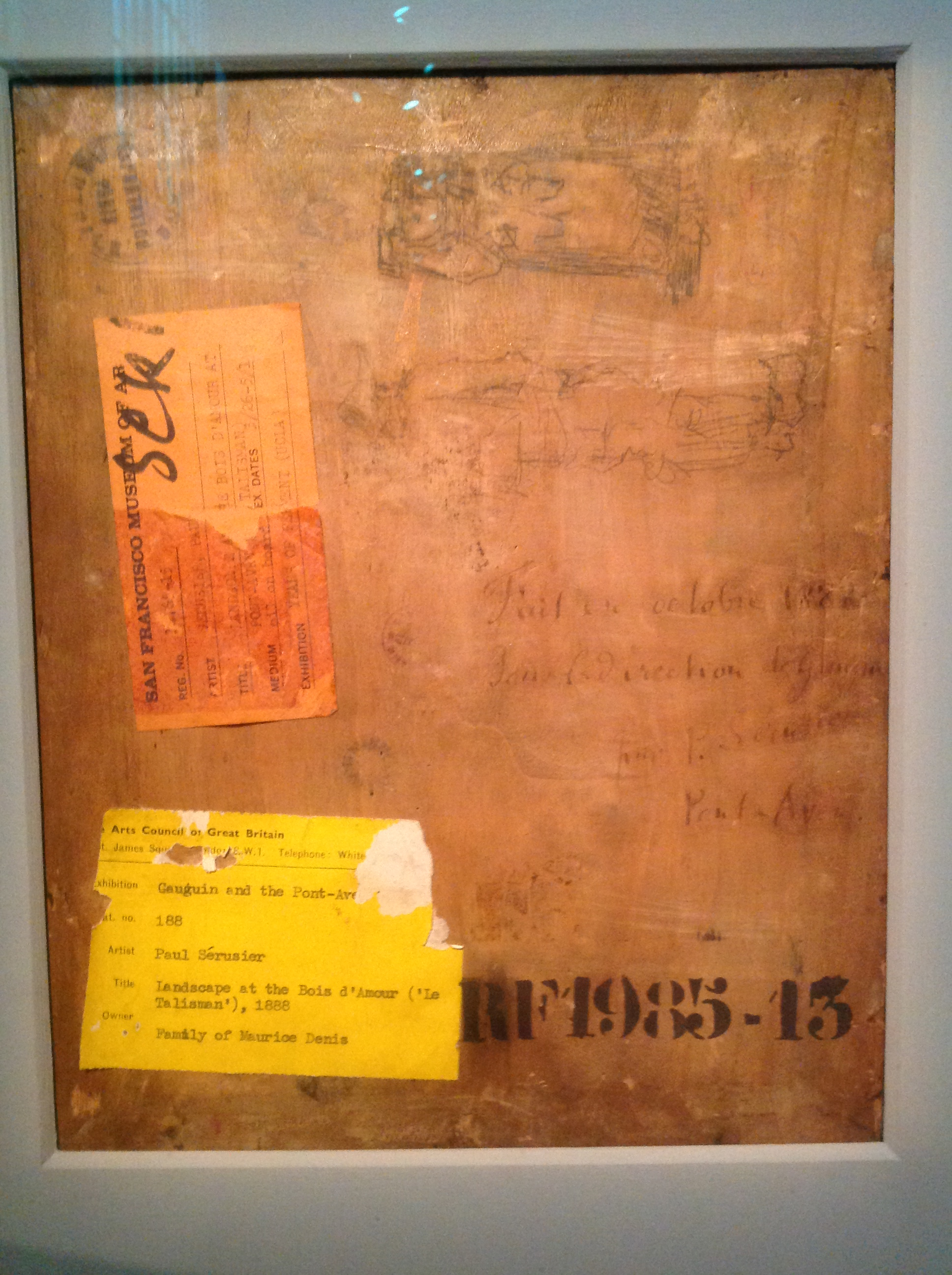 Reverse side of " :en:The Talisman {painting)|The Talisman {painting) by Paul Serusier, with inscription by Serusier.